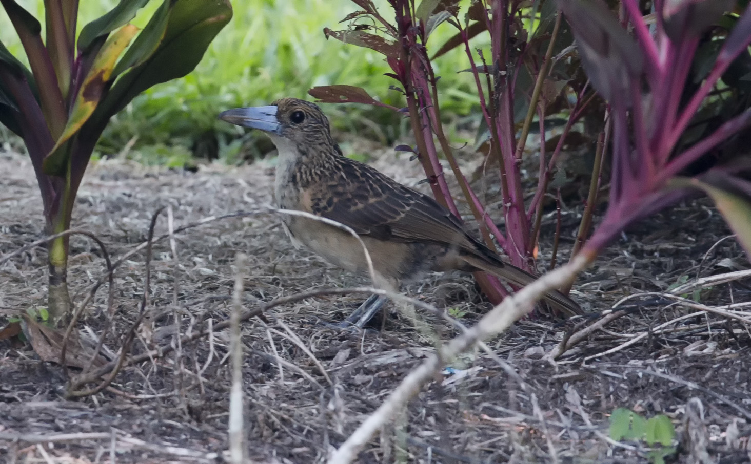 black or forest butcherbird, juvenile. Very good comoflage